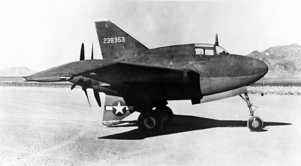 PictionID:40971437 - Title:Black Bullet Northrop XP-56 42-38353 - Catalog:15_002843 - Filename:15_002843.tif - Image from the Charles Daniels Photo Collection album "US Army Aircraft."----PLEASE TAG this image with any information you know about it, so that we can permanently store this data with the original image file in our Digital Asset Management System.----SOURCE INSTITUTION: San Diego Air and Space Museum Archive